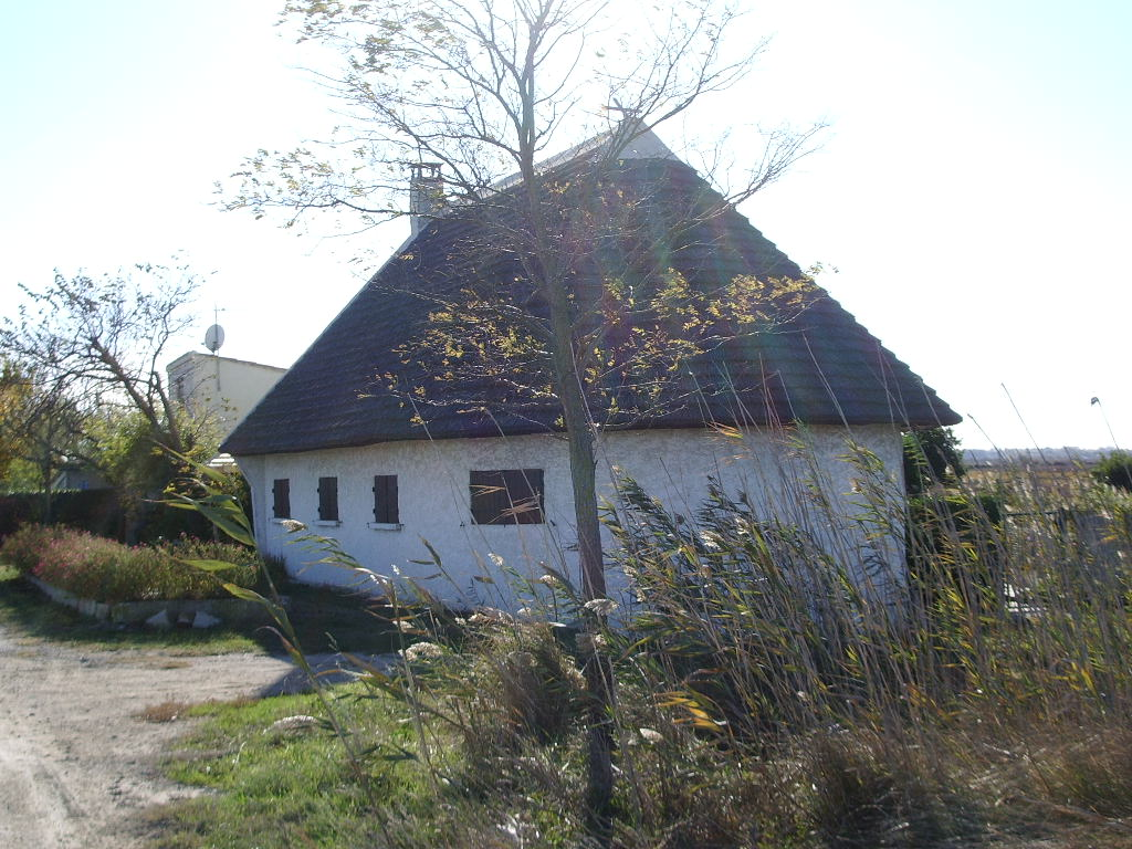 camarguian style house